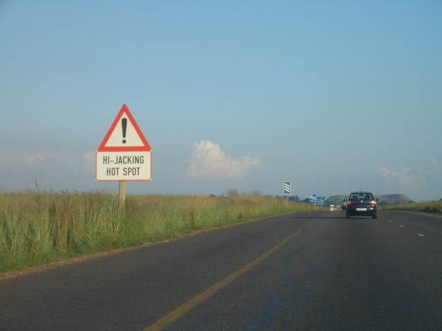 Description: A car hijacking hot spot indicated on a road sign at an off-ramp from the N4 freeway near Witbank, Mpumalanga, South Africa, 2005 Picture taken on 28.01.2005